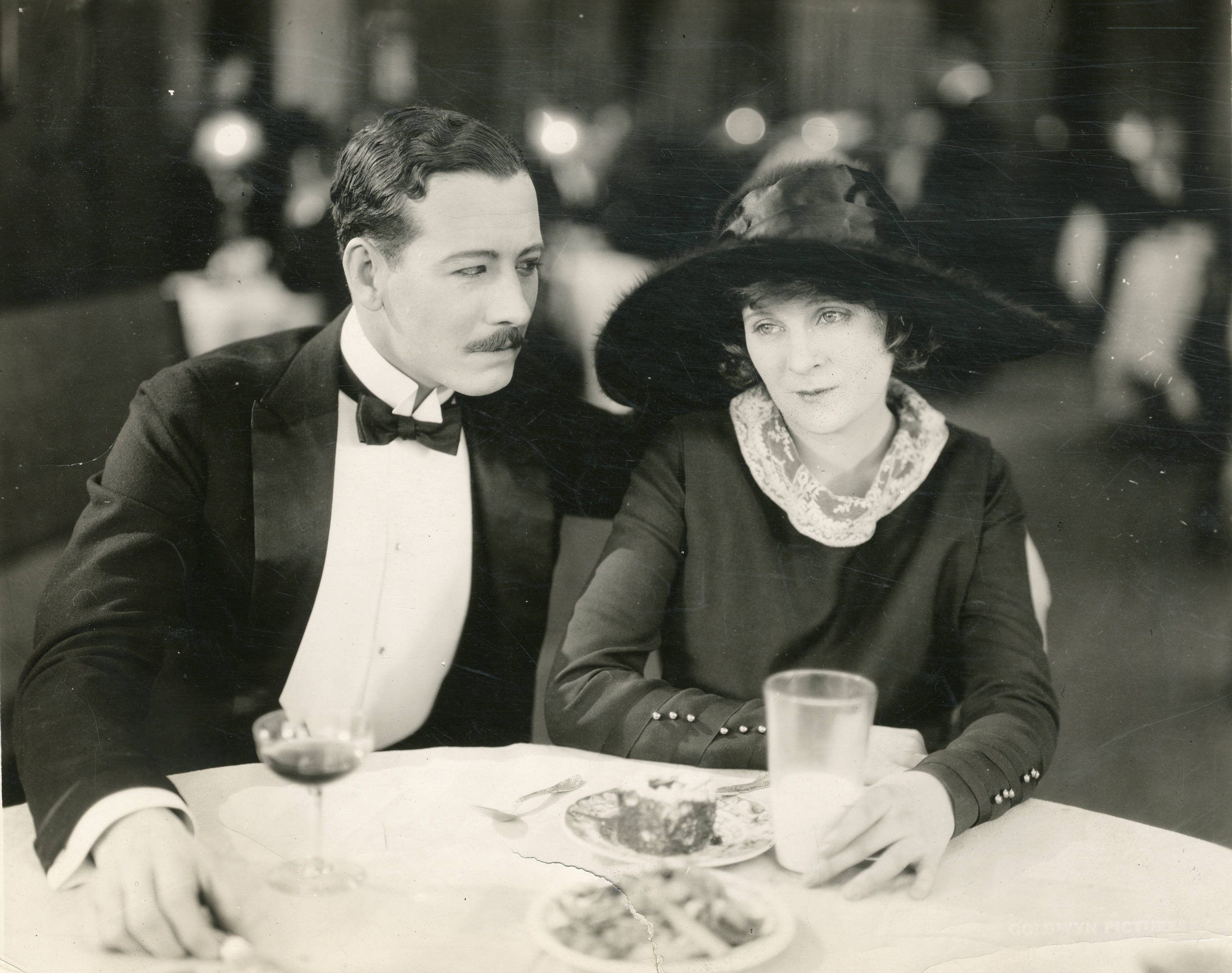 A scene from the American drama film Spotlight Sadie (1919), which played at the Clemmer Theater, Seattle. Date stamped June 21, 1919. Includes Mae Marsh. Subjects: motion pictures, actresses